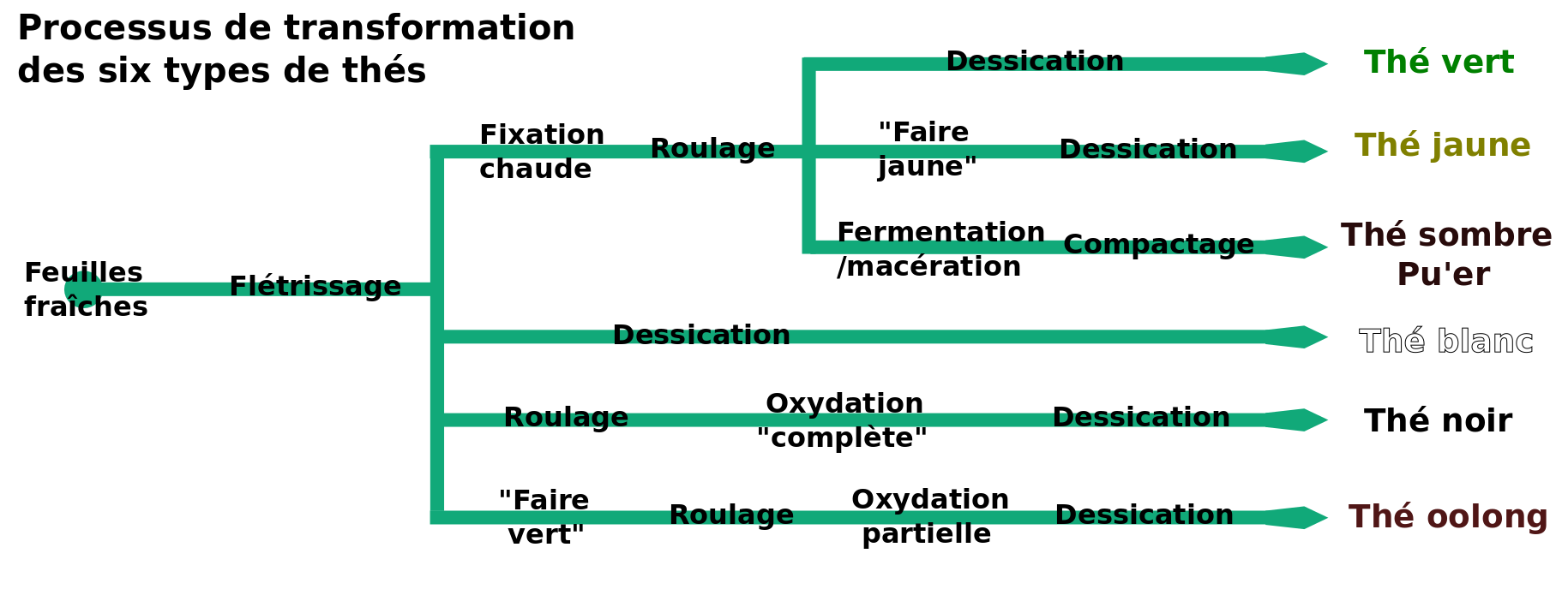 Basic processing for the six types of teas. Adapted from Ming-Zhe Yao ans Liang Chen, « Tea Germplasm and Breeding in China », in Liang Chen, Zeno Apostolides and Zong-Mao Chen (éds.), Global Tea Breeding: Achievements, Challenges and Perspectives, Hangzhou and Berlin, Zhejiang University Press et Springer, 2012, fig. 2.2 p.17.